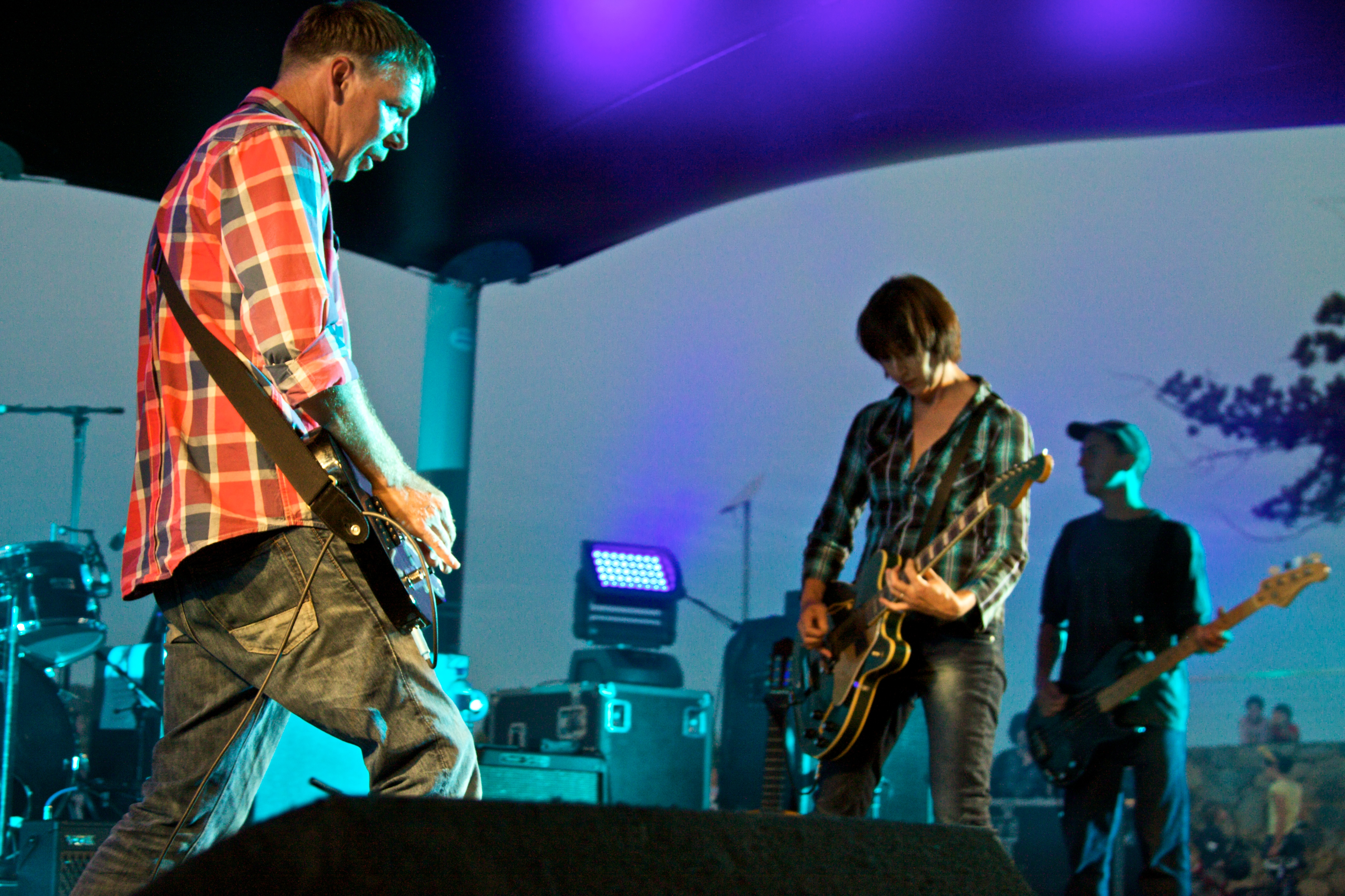 Falling Joys reunited, National Museum of Australia, 2011-02-26